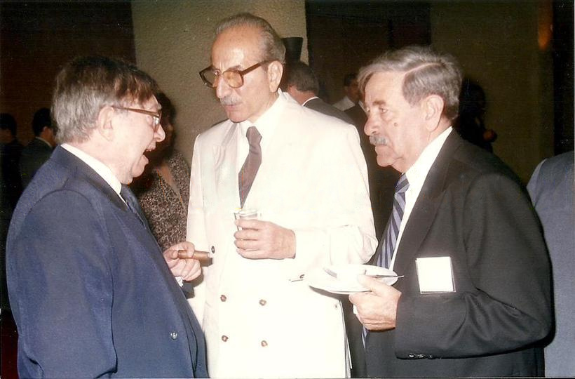 Baath Party veterans at a cocktail reception in 2002 From left to right: Finance Minister Mohammad al-Atrash, ex-Foreign Minister Hassan Mraywed, ex-Chairman of the Revolutionary Command Council of the Baath Party Mansour al-Atrash.